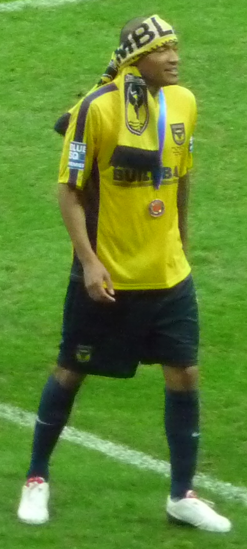 Damian Batt. Image cropped from original at flickr.